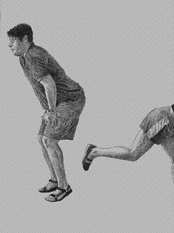 Karl Stevens, Guilty (cover) Author: Karl Stevens Source: downloaded from Copyright: Karl Stevens